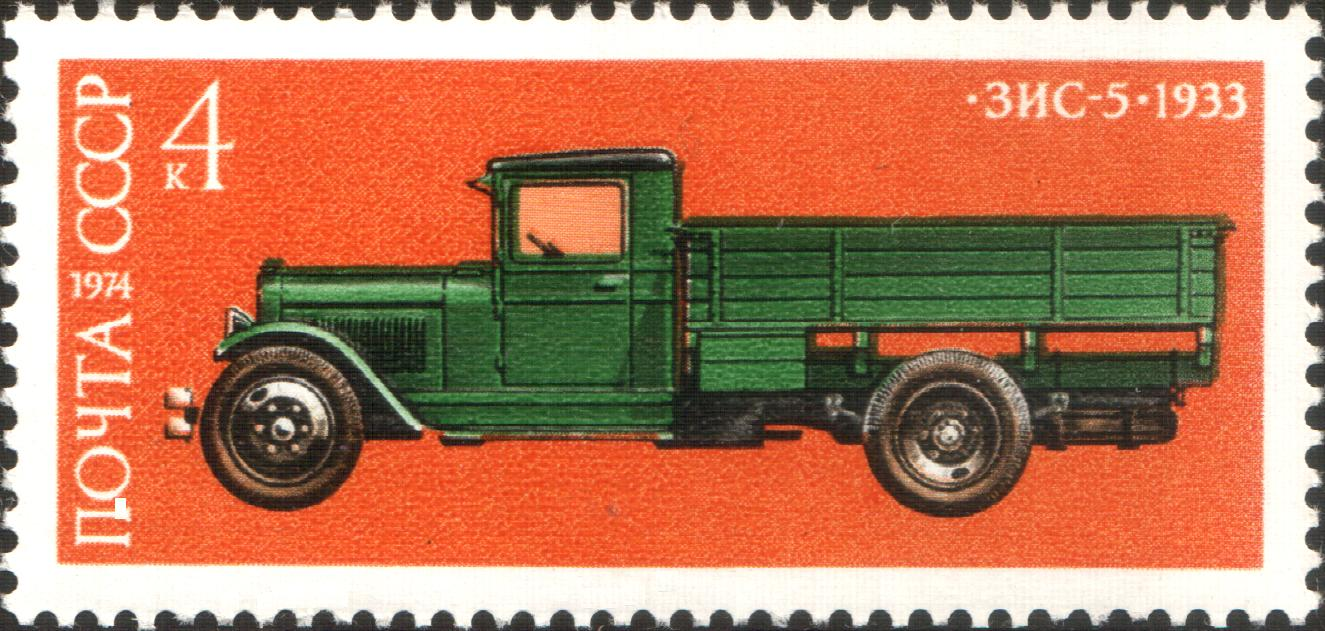 USSR stamp